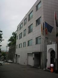 Embassy of Belgium in Seoul